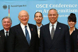 The US delegation for the 2004 OSCE Conference on Anti-Semitism, led by former New York Mayor Ed Koch and former US Secretary of States Colin Powell.